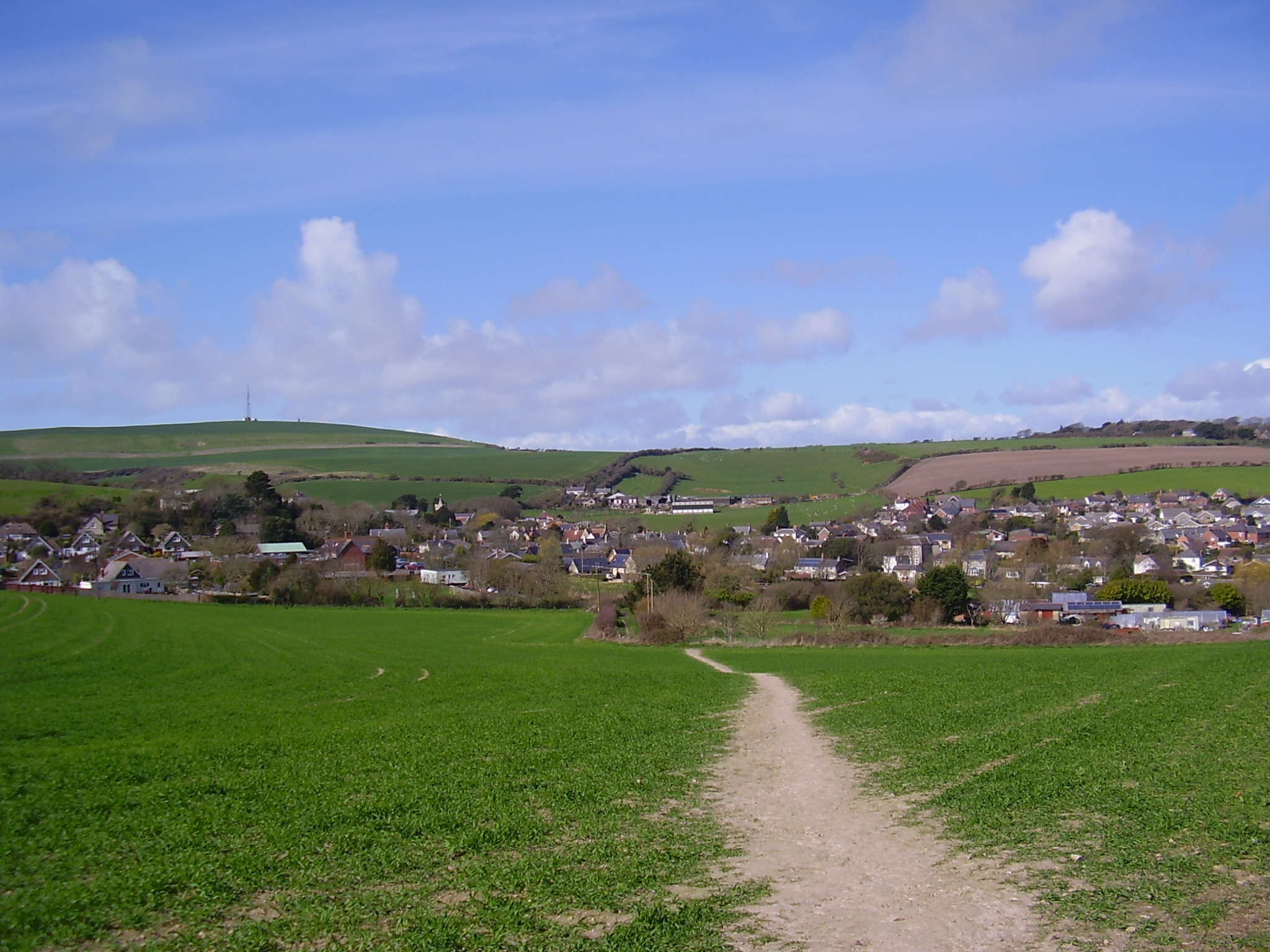 Village of Niton, Isle of Wight, UK